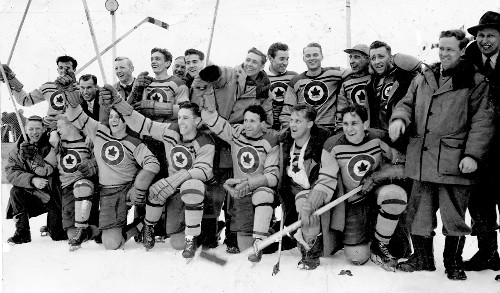 The Ottawa RCAF Flyers won the gold medal in ice hockey for Canada at the 1948 Winter Olympics in St. Moritz